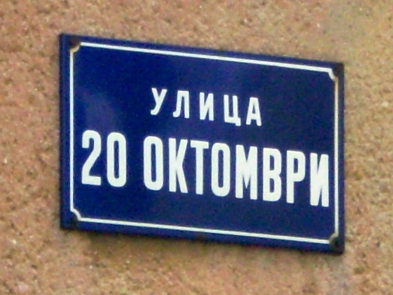 20 October street Skopje, Macedonia